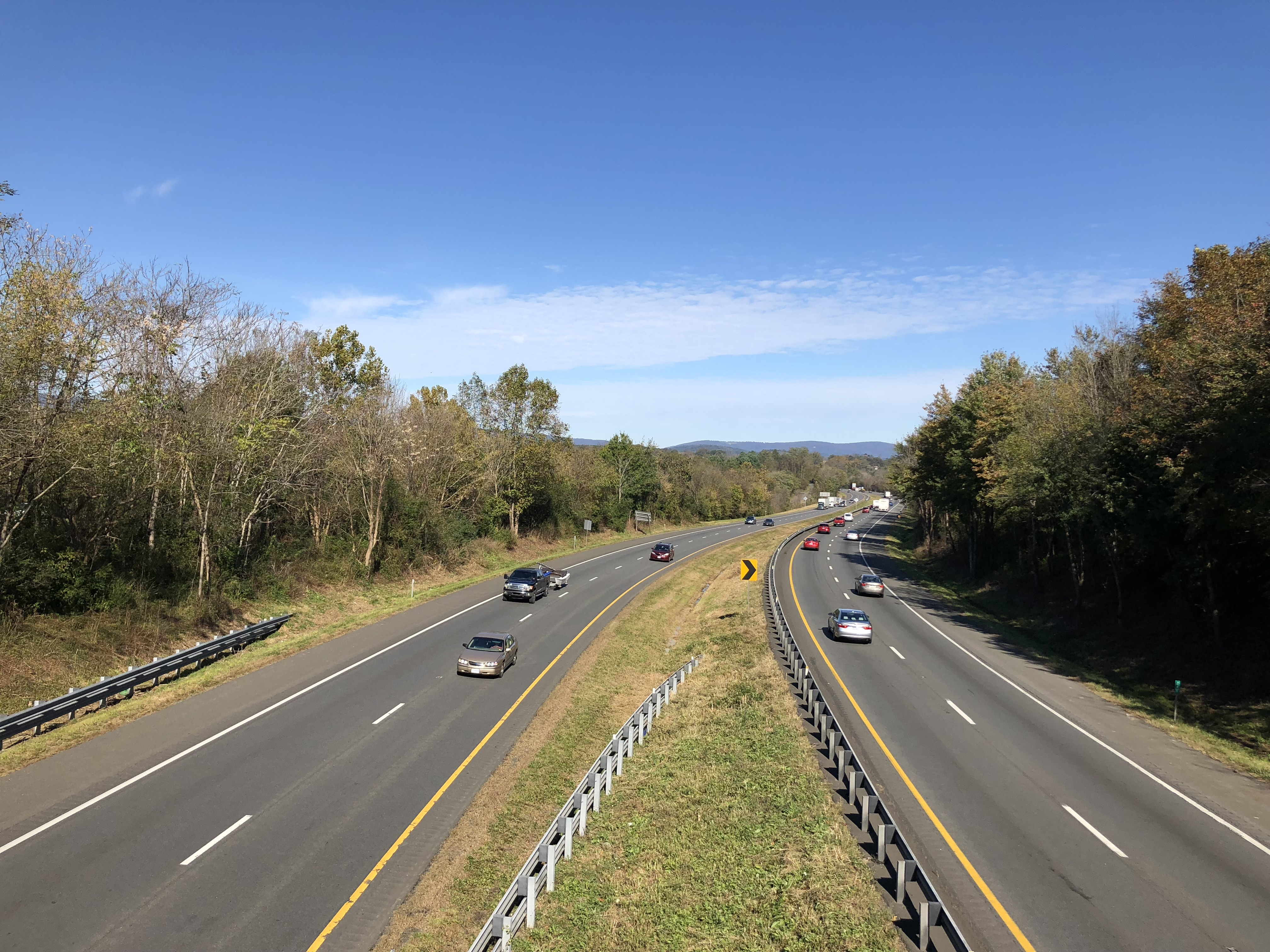 View west along Interstate 66 and Virginia State Route 55 and north along U.S. Route 17 from the overpass for Ashville Road (Virginia State Route 723) in Ashville, Fauquier County, Virginia